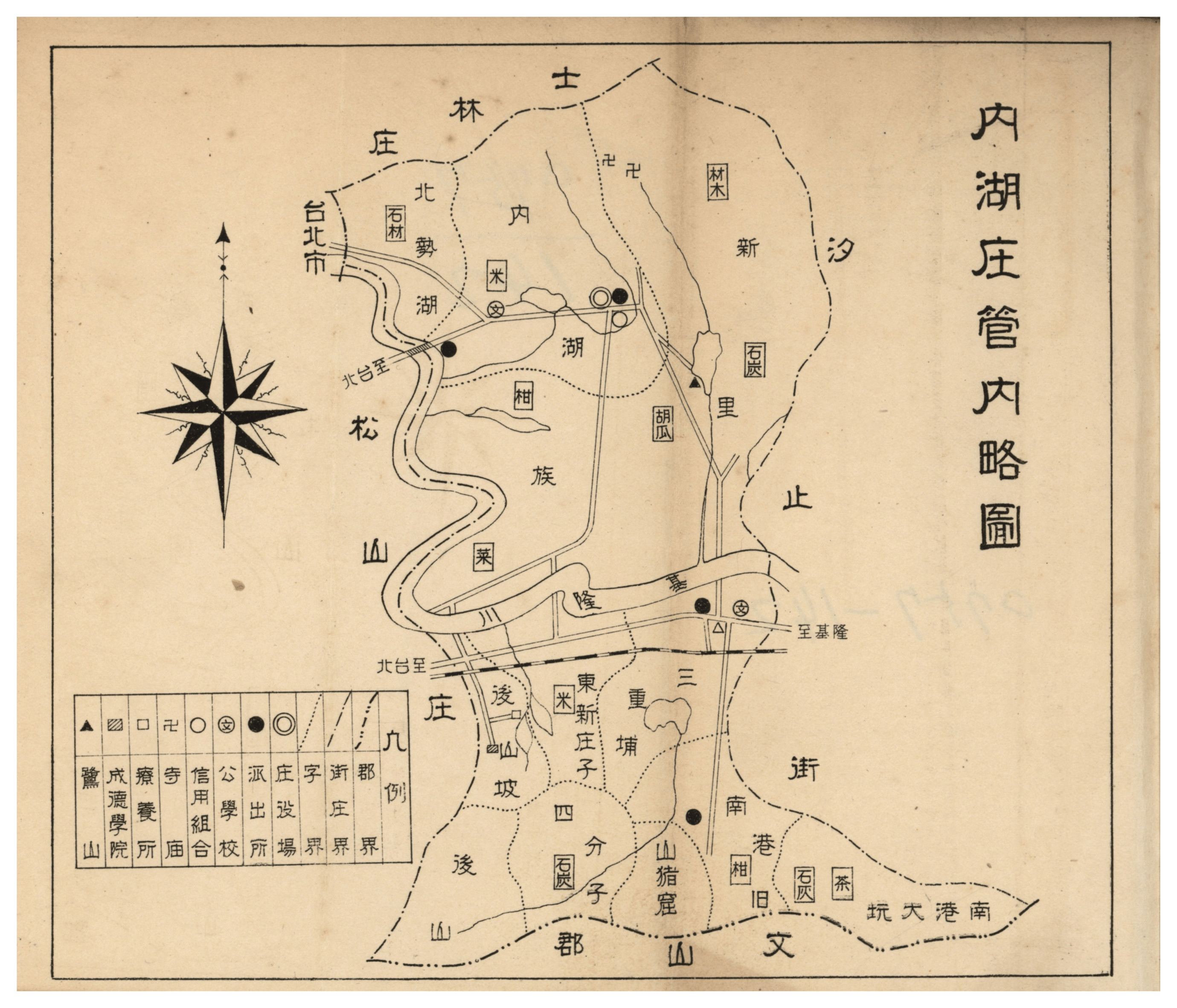 中文（台灣）: Map of Naiko Village, published in 1933